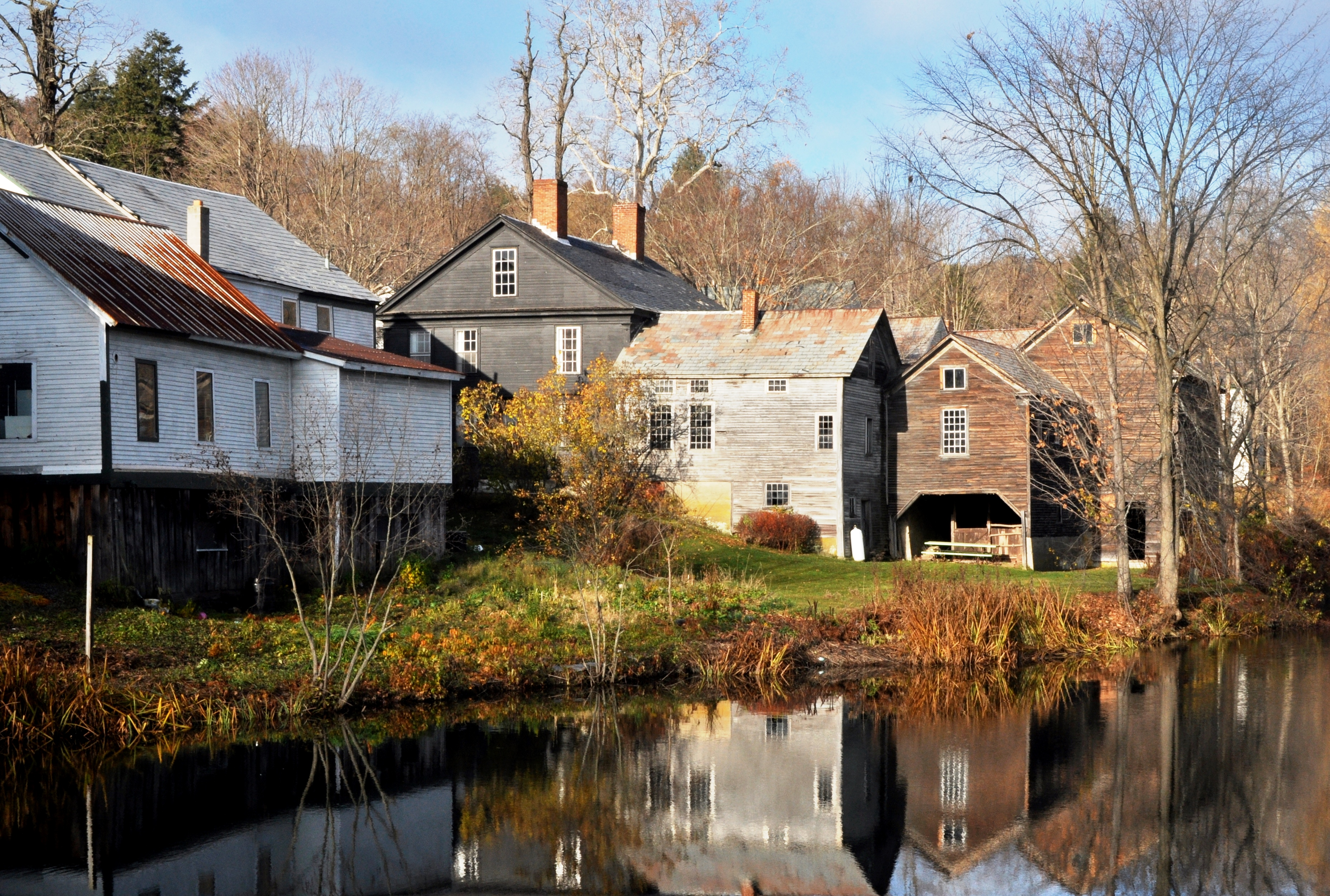 Sacketts Brook river in the center of Putney, Vermont, USA.